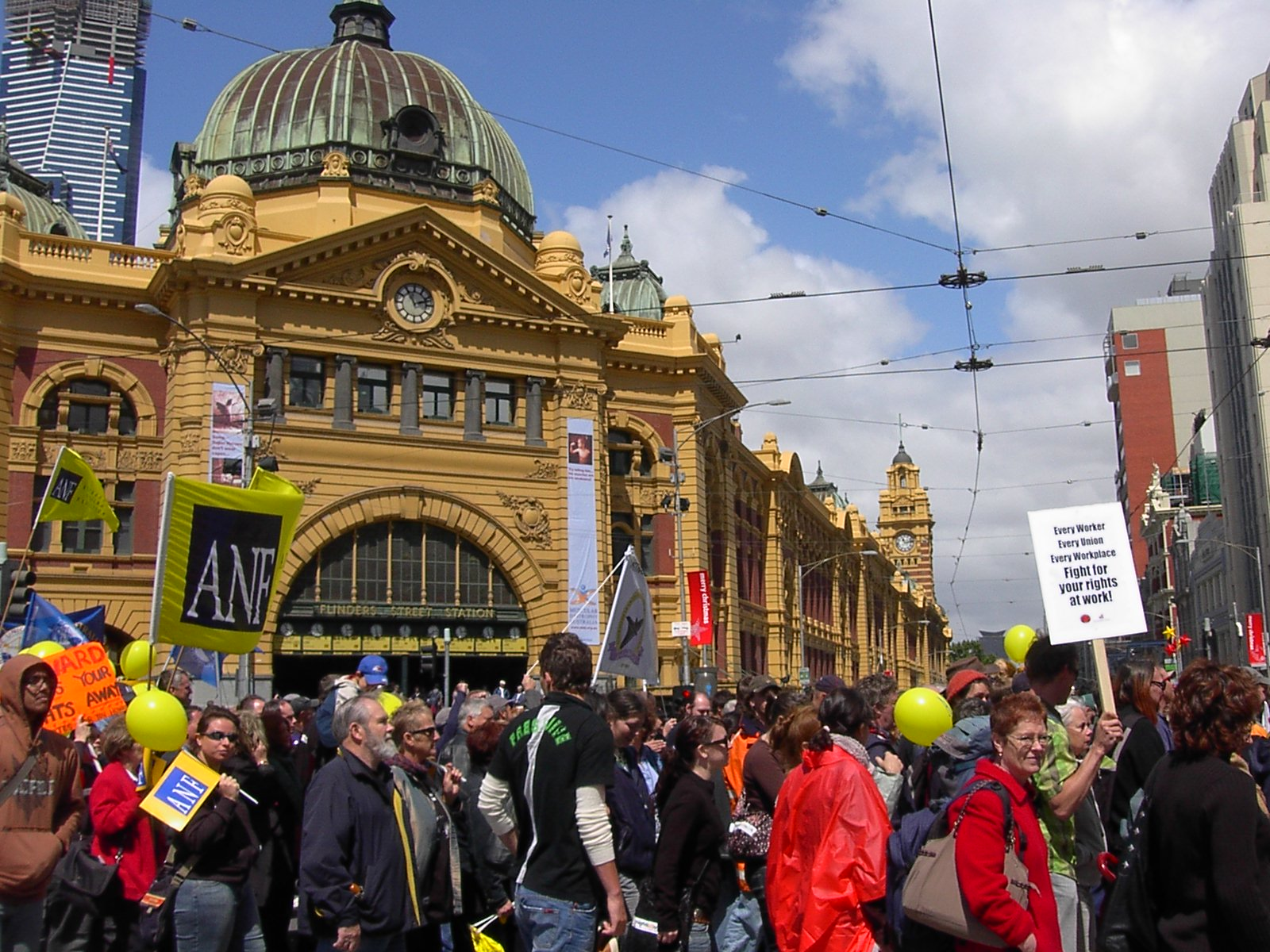 Photo by User:Adam Carr, November 2005